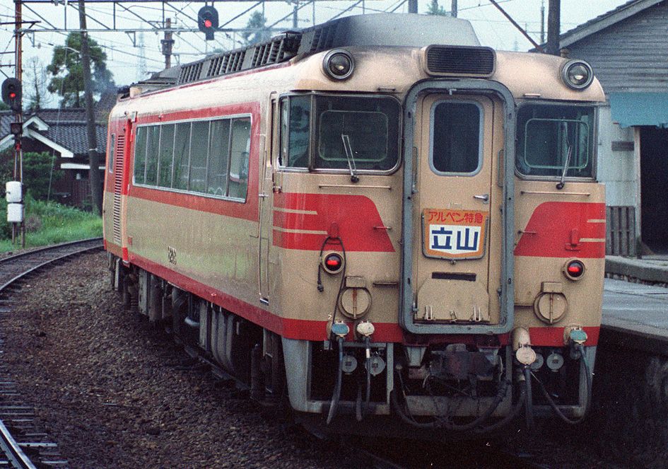 Meitetsu Kiha 8000 series DMU for Alpen Express train bound for Tateyama, at Terada Station